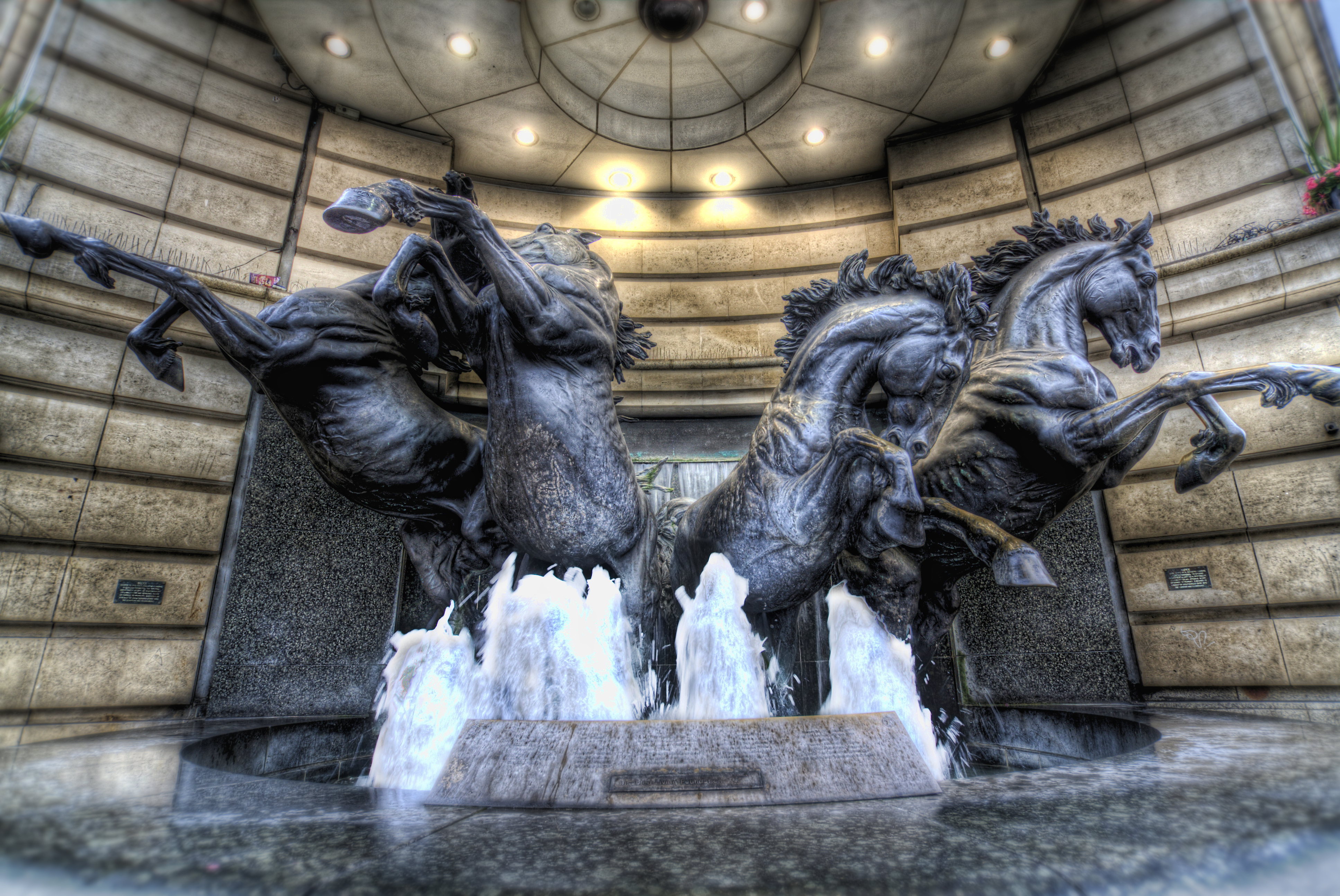 I love this sculpture called 'The Horses Of Helios' which is located on the corner of Piccadilly Circus and Haymarket in London. Last time I visited here it was night time and I got a pretty good shot of it however it was exceptionally busy (as Piccadilly Circus tends to be in the evening) and I couldn't get the shot that I wanted. Turning up here at silly-o-clock in the mornig was the ideal scenario for getting the shot that I originally wanted. Here's the photograph I took during my earlier visit to London in 2010 :- POST PROCESSING - The only thing that needed amending here was the fountains so I chose one of the original RAW files which had the most movement in the water and masked it into the Photomatix result. I then ran It through Topaz Adjust to give the repaired parts a bit of a boost. Finally I added blur to the corners to give a little more interest and drama to these areas and add focus to the powerful main subject matter in the photo.